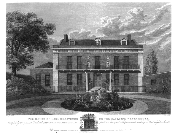 Peterborough House, Millbank, Westminster, London. "The House of Earl Grosvenor on the Bankside, Westminster", engraving of 1666 illustration published in Wilkinson, Robert, Londina Illustrata: Graphic and Historical Memorials of Monasteries, Churches, Chapels, Schools, Charitable Foundations, Palaces, Halls, Courts, Processions, Places of Early Amusement, and Modern Present Theatres, in the Cities and Suburbs of London and Westminster, Volume I, 1819-1825